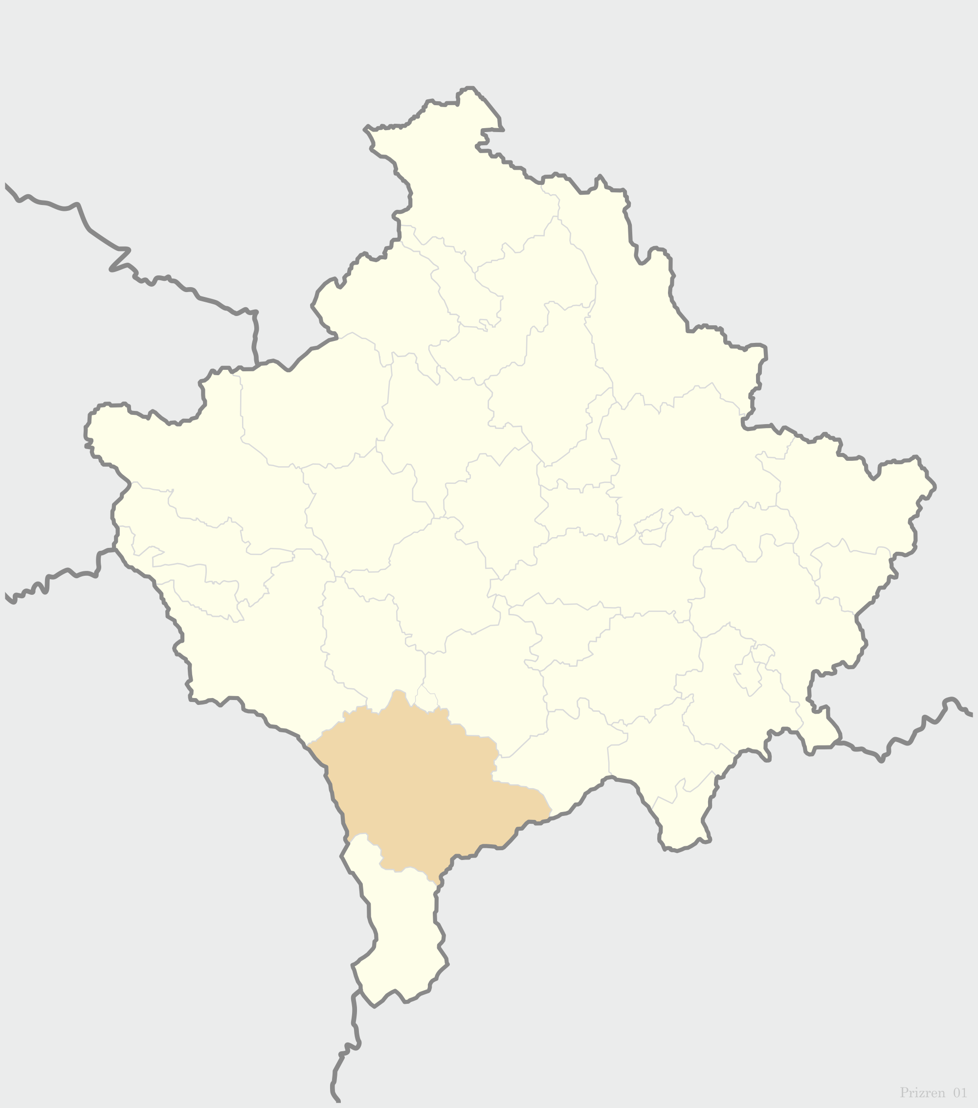 Municipality of Prizren map